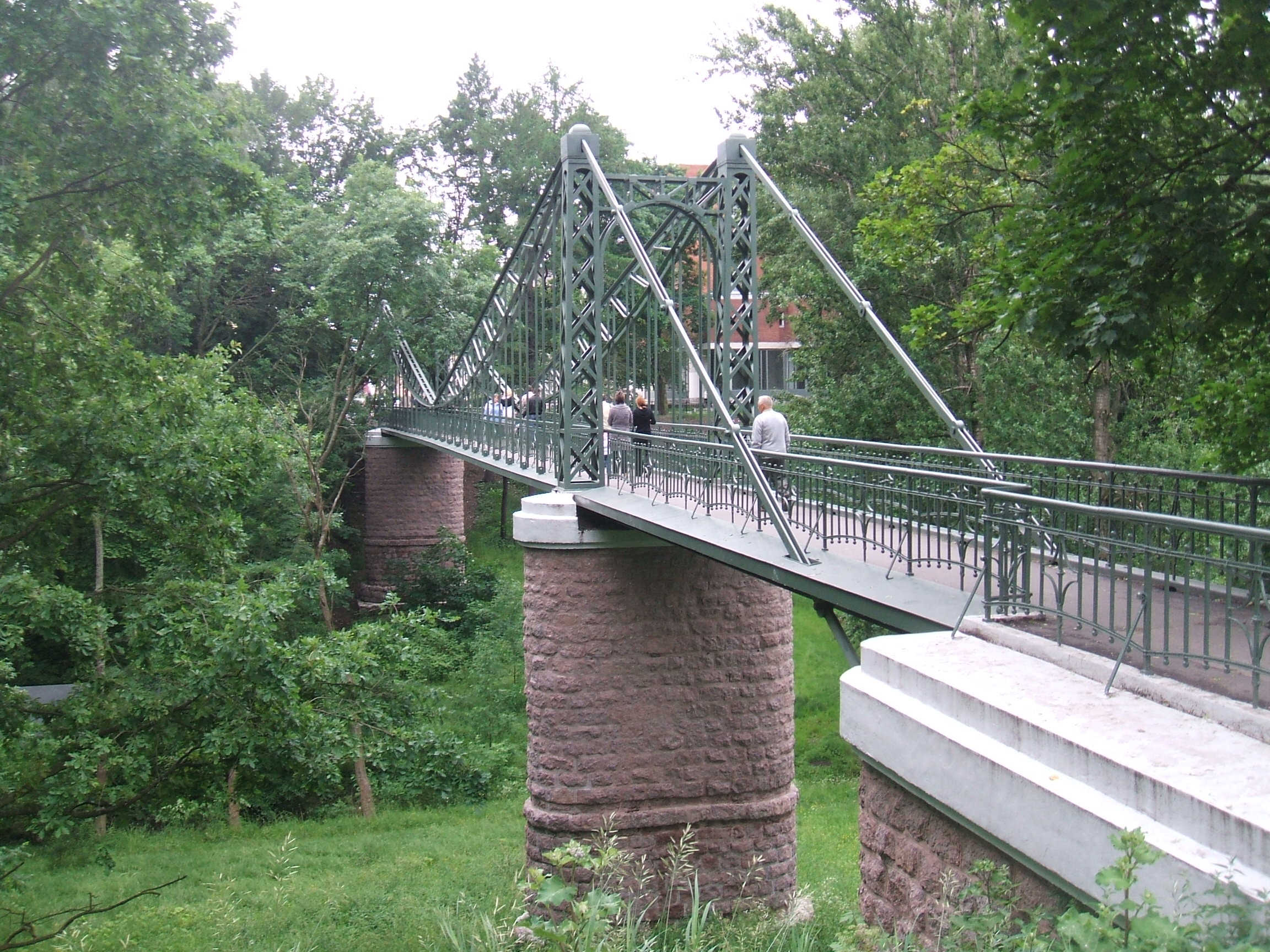 Kronstadt. Makarov Bridge over Petrovsky ravine.